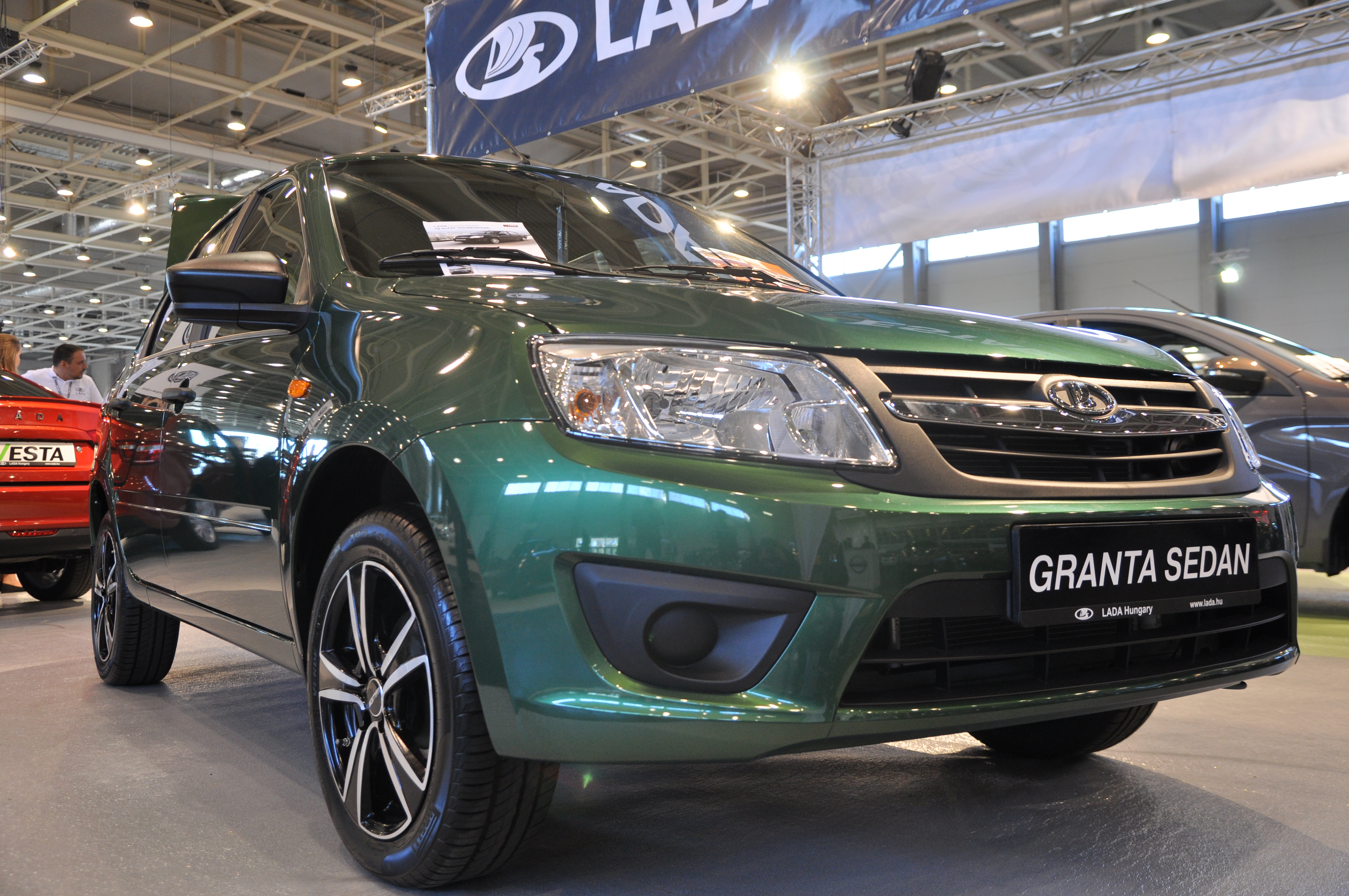 Budapest, Hungexpo, Automobil and Tuning Show 2017